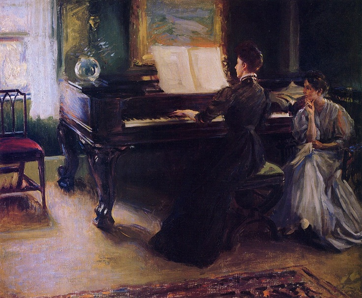 Mary Brewster Hazelton, Two Sisters at a Piano, 1894